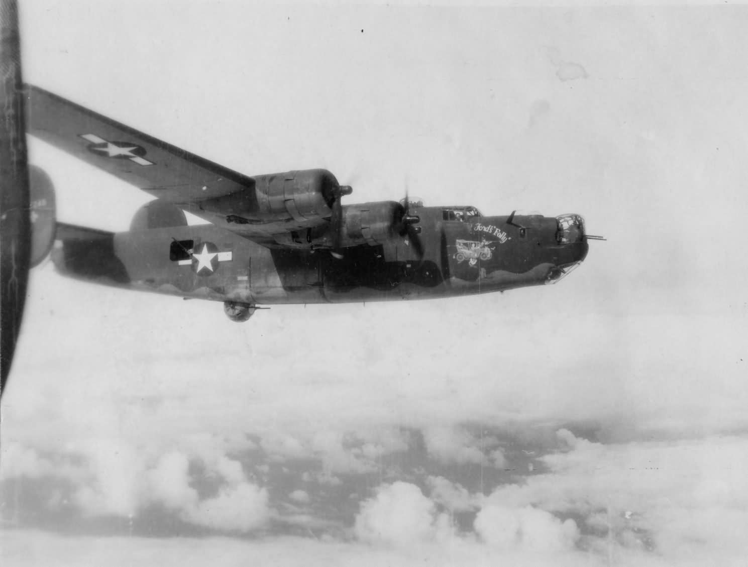 Consolidated B-24H-10-FO Liberator in Flight. "Fords Folly" serial number 42-52249, 455th Bomb Group.